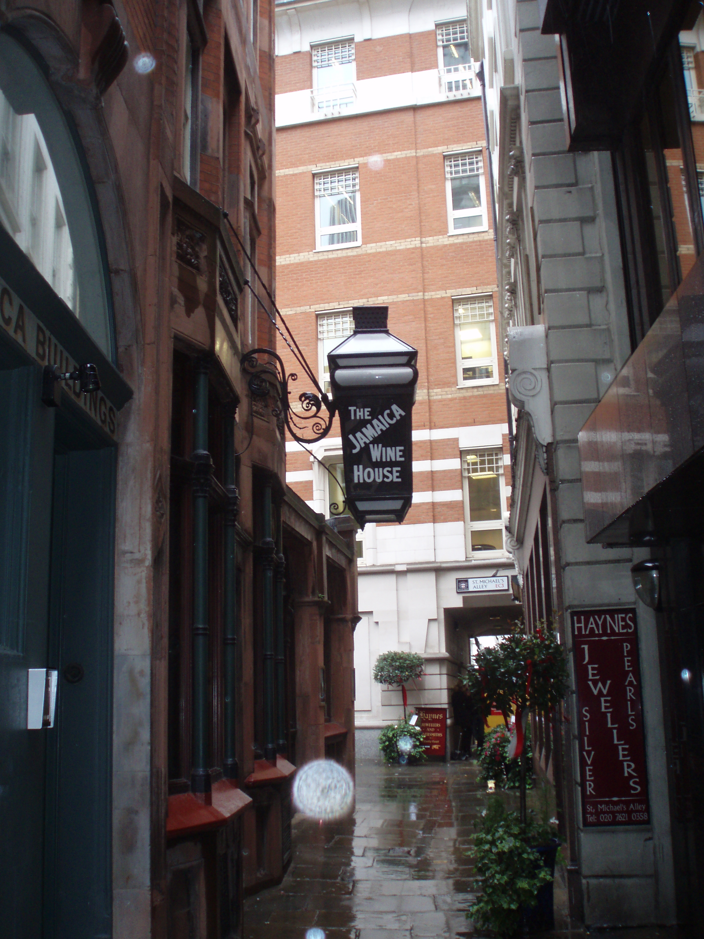 Alley adjacent to St Michael's Photo taken by M.Eyre 23rd August 2007